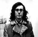 Christo